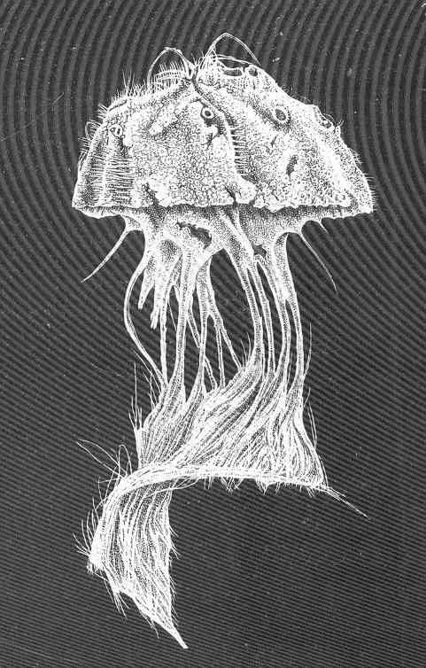 Tisiphonia agariciformis, Wyville Thomson Subject: Sponges, Tisiphonia Tag: Invertebrates